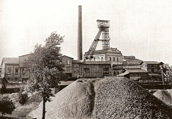 The colliery Františka in Karviná (Czech Republic) in 1924.